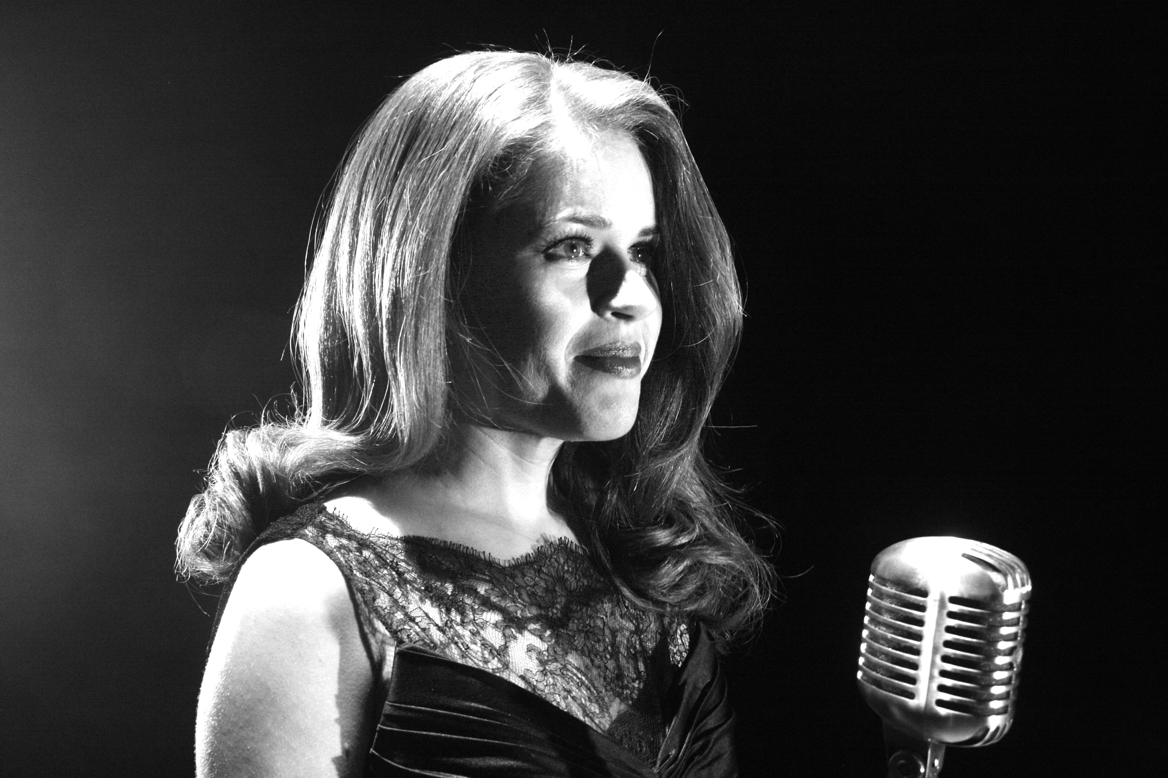 My picture taken at one of my video shoots in 2014